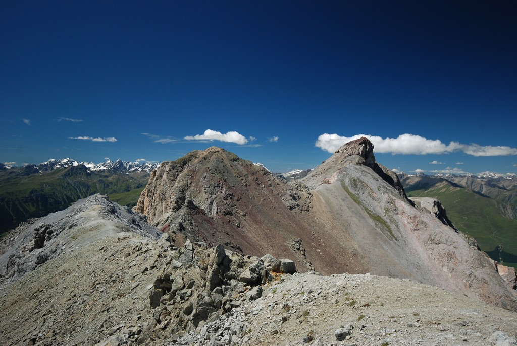 Ridge to summit of Piz Lischana, seen from southeast